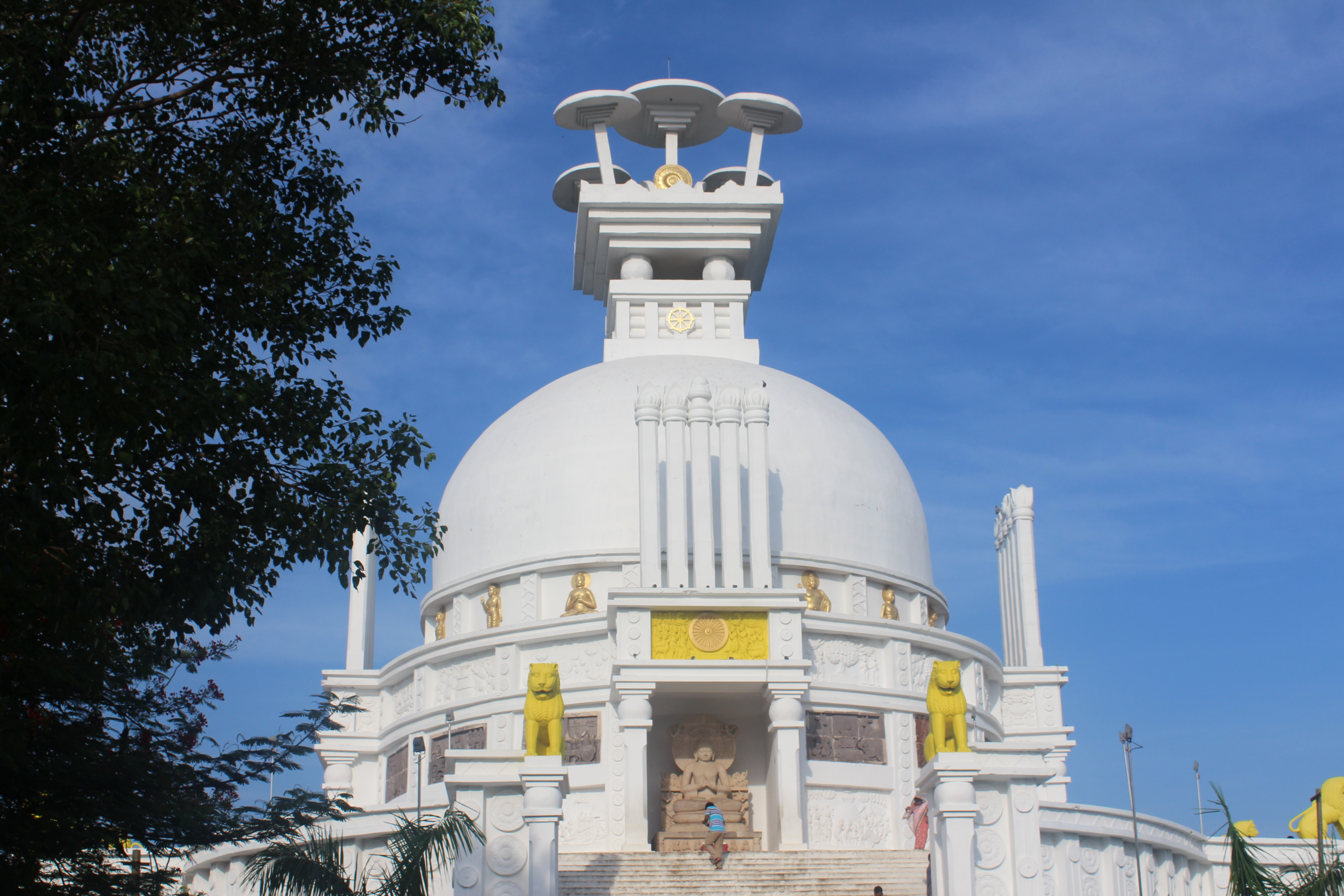 Dhauli Shanti Stupa, Bhubaneswar